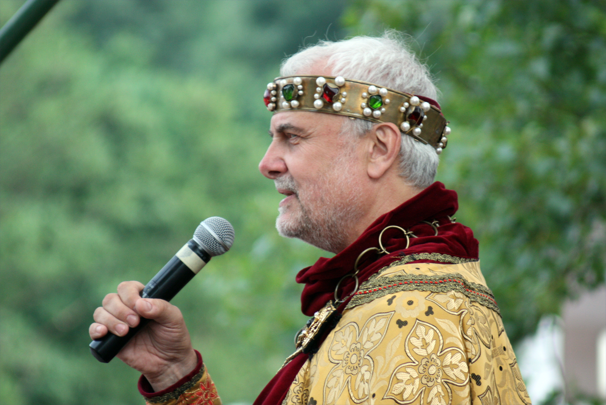 Czech actor Vladimír Čech as emperor Charles IV. in 2011.